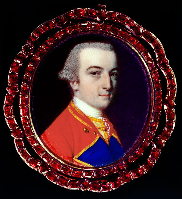 Portrait of Virginia Colonial Governor Francis Fauquier